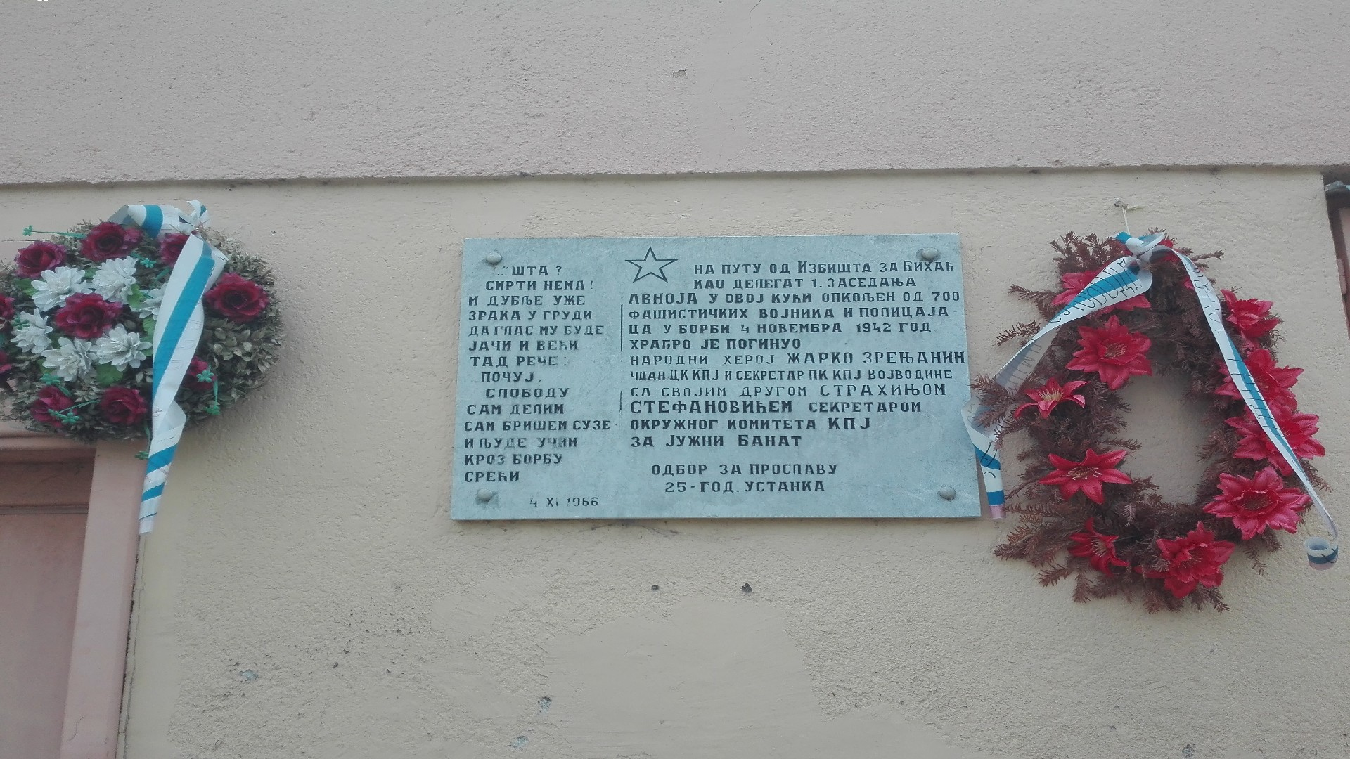 House in Žarka Zrenjanina street, number 27a- memorial plaque in Pavliš